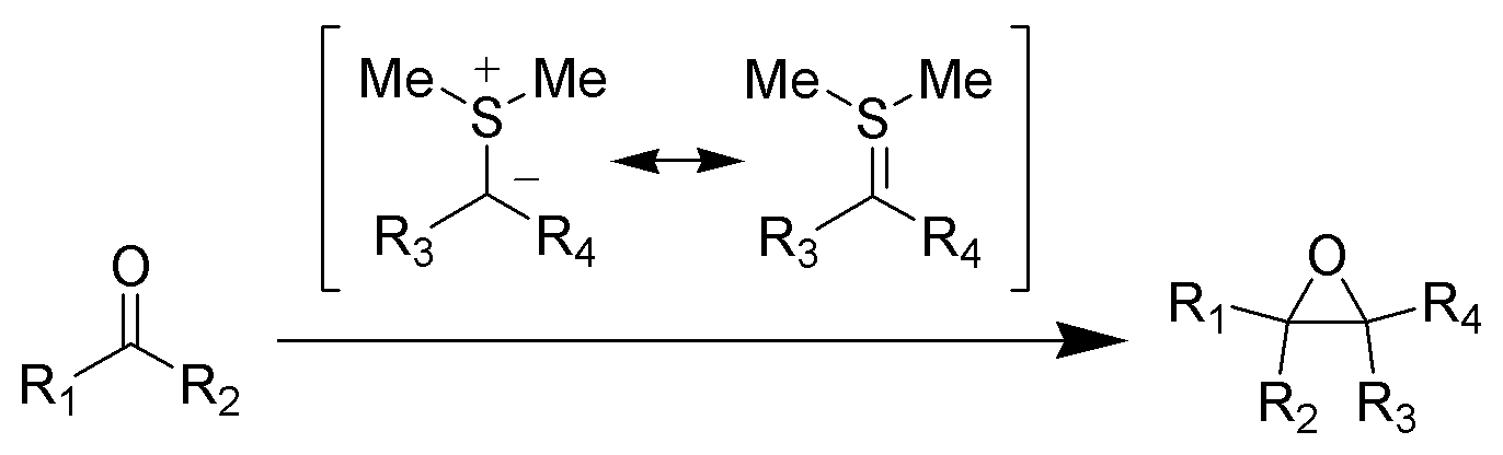 Description: Reaction scheme of the Johnson-Corey-Chaykovsky reaction. Author, date of creation: selfmade by ~K, 27 November 2005. Source: - Copyright: Public domain. (PD) Comments: high-resolution b/w PNG; ChemDraw / The GIMP.